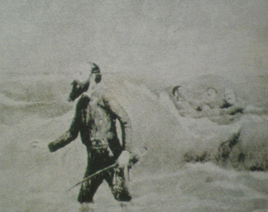 Disembarkation of Juan Crisóstomo Falcón and Antonio Guzmán Blanco in Palma Sola.